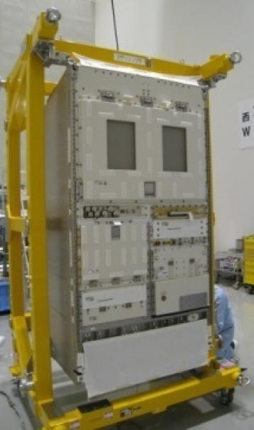 Multi-purpose Small Payload Rack, transferred to the International Space Station aboard the Kounotori 2 HTV.